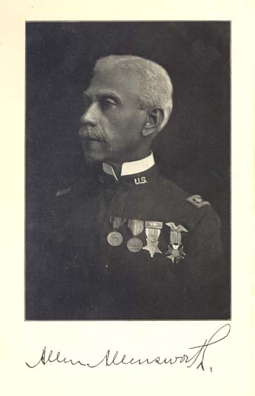 Lt. Colonel Allen Allensworth (7 April 1842 – 14 September 1914) was an American Buffalo soldier in the United States Army. He was the highest ranking African American commissioned officer in the United States military at his retirement in 1906, and is remembered as the founder of the all-black township of Allensworth, California, now Colonel Allensworth State Historic Park.